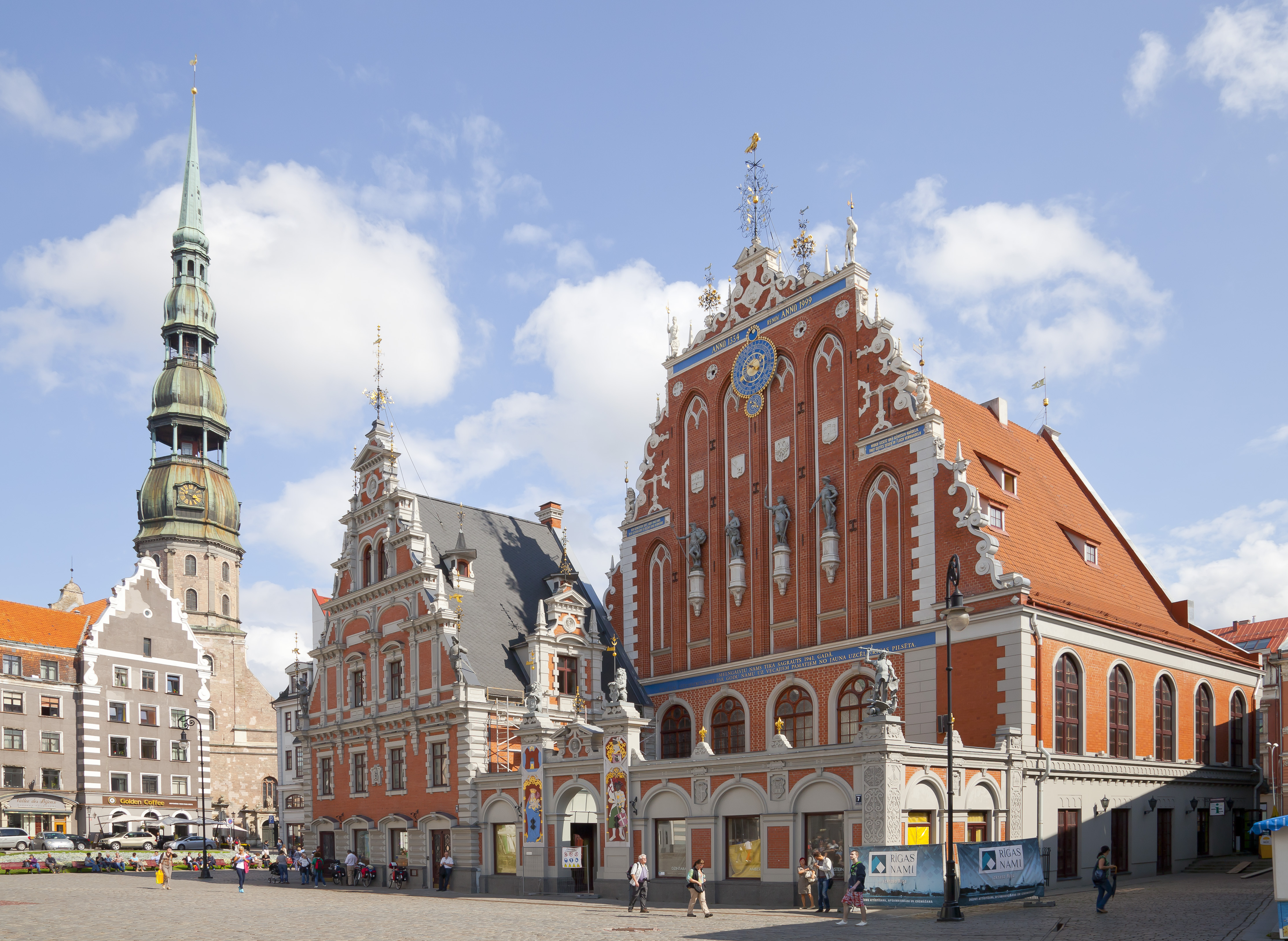 Town Hall Square, Riga, Latvia